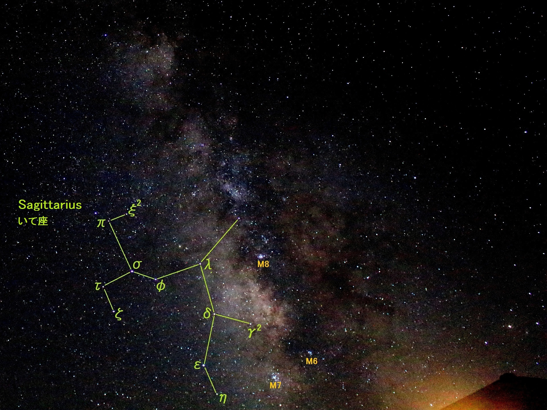 Milky Way and Sagittarius (with note) seen from Mount Yakushi, Hida Mountains, Tateyama, Toyama prefecture, Japan.